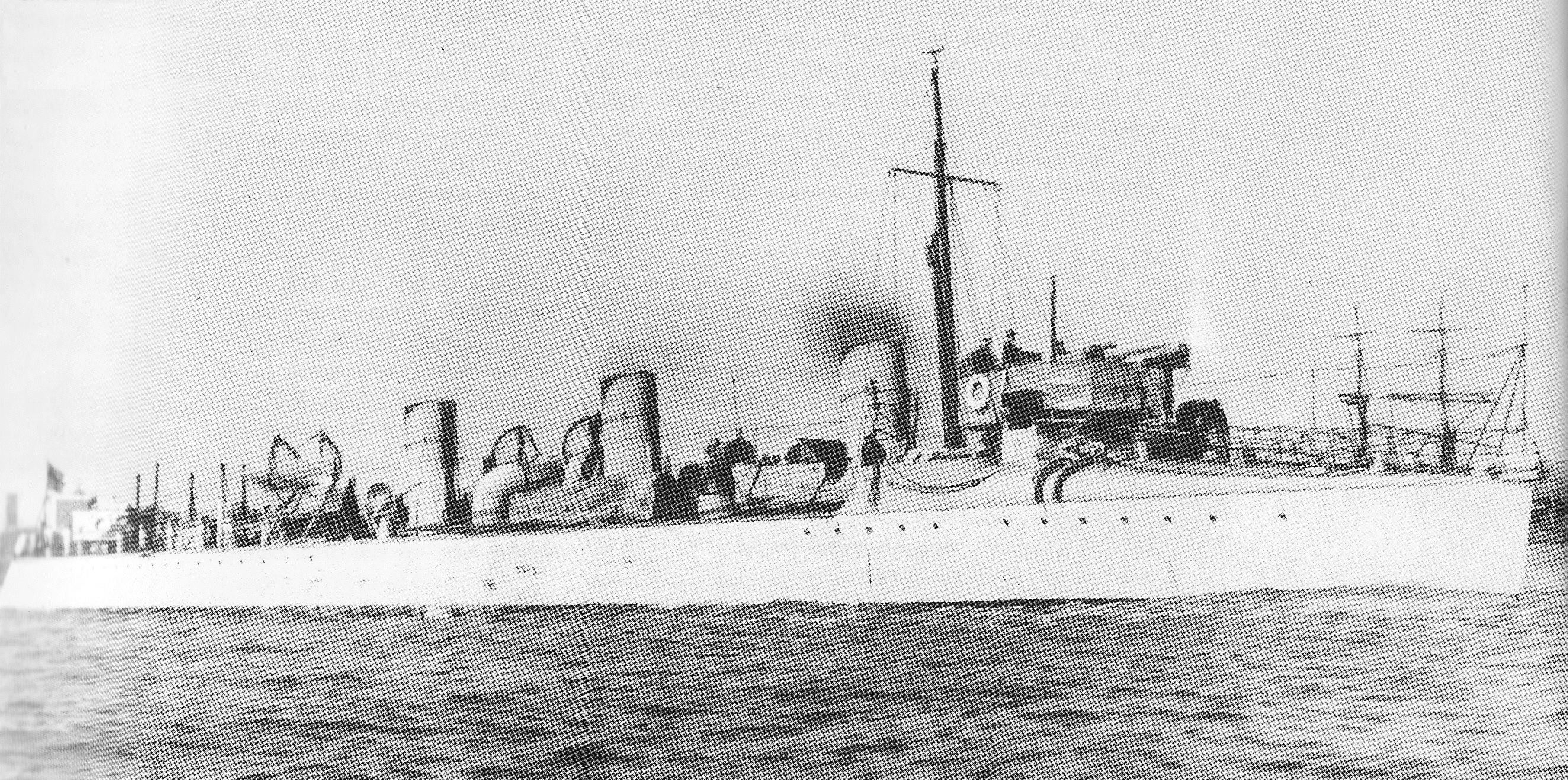 HMS Albatross (1898) in Mediterranean colours of white hull and yellow funnels